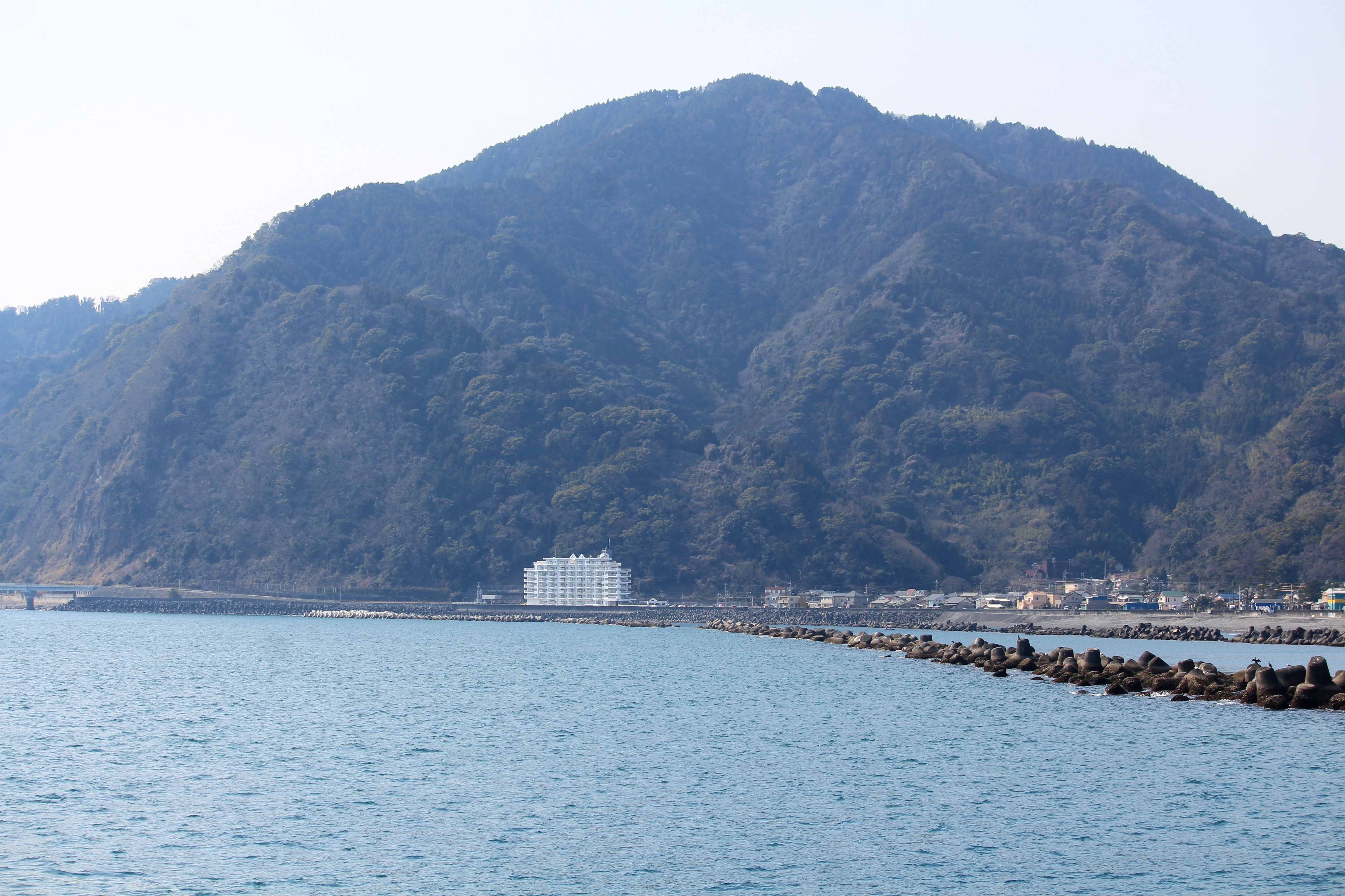 Mount Hanazawa seen from Port of Mochimune in Shizuoka prefecture, Japan.